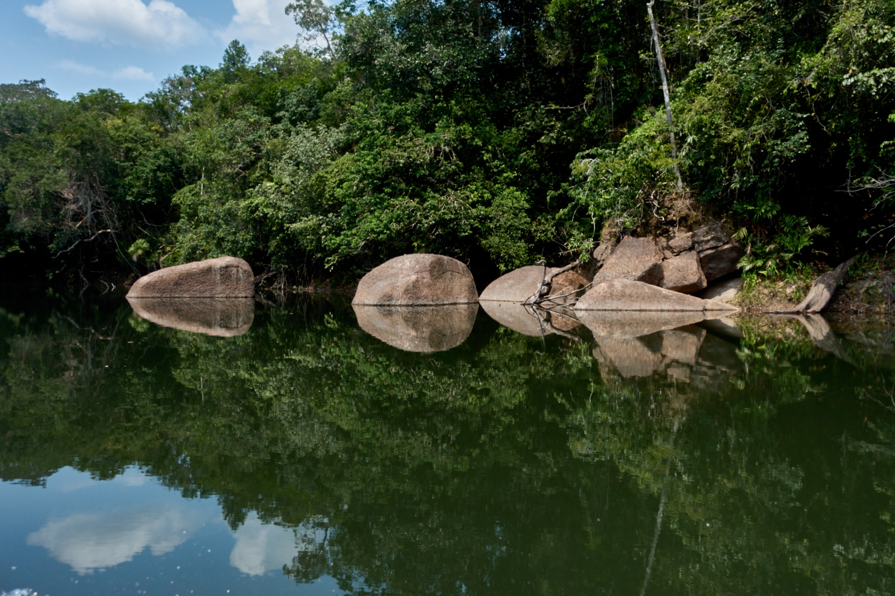 stone formation along Rio Marmelos